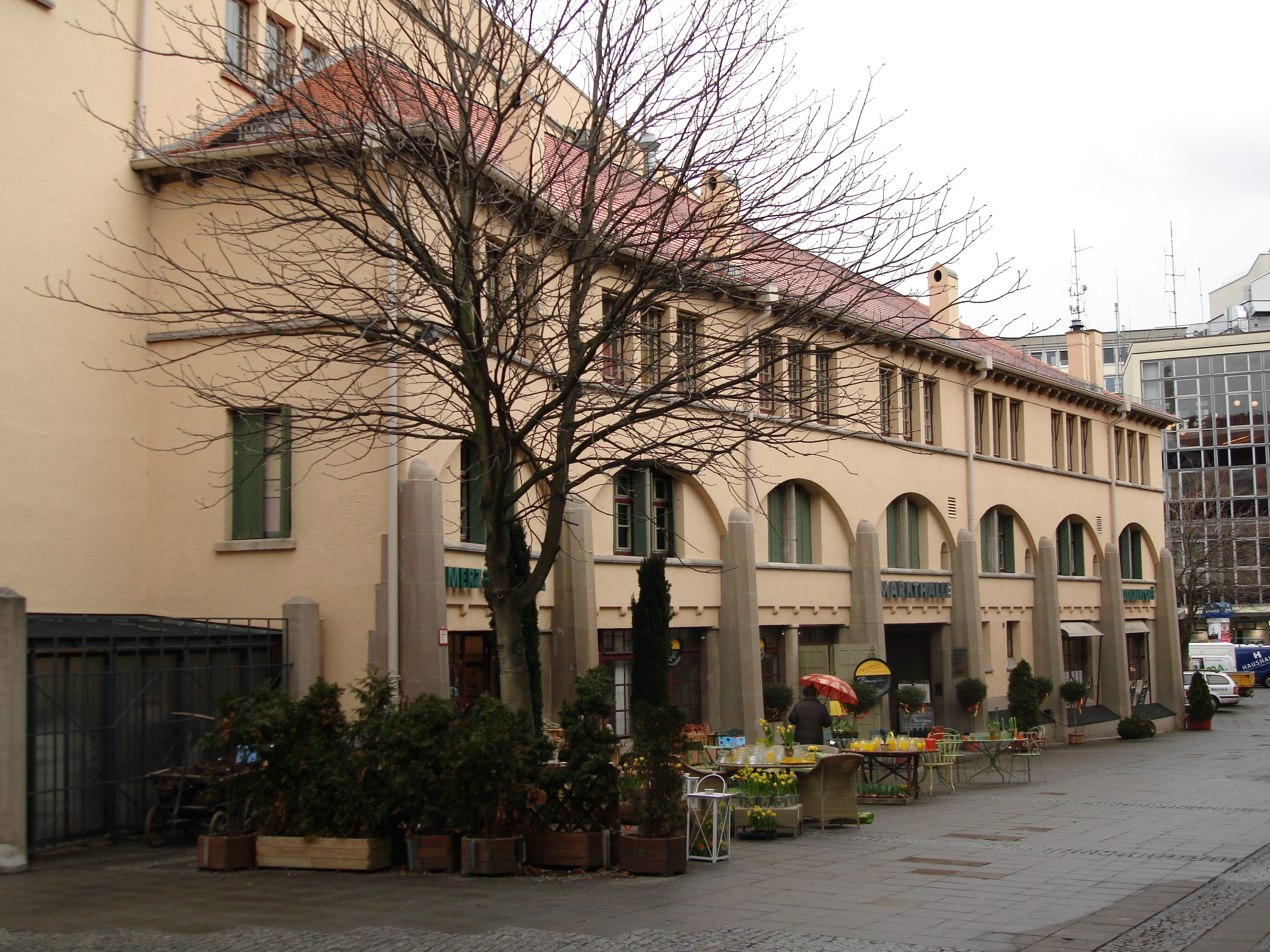 Markthalle (Market Hall) in Stuttgart